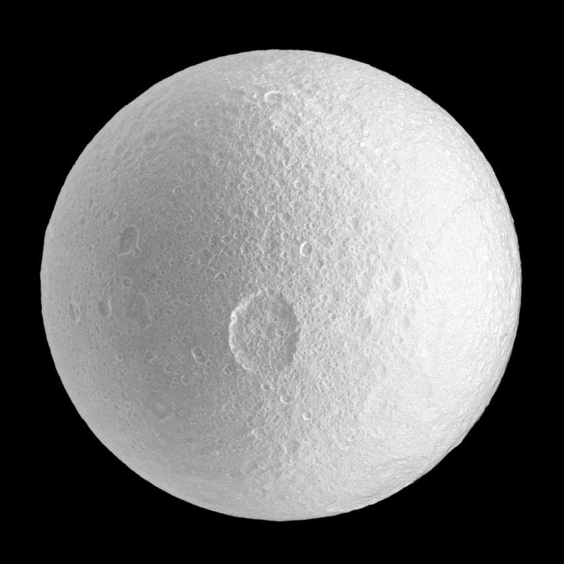 Penelope impact crater on Tethys